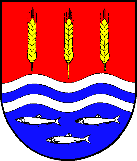 Coat of arms of the municipality Thumby in Schleswig-Holstein, Germany.